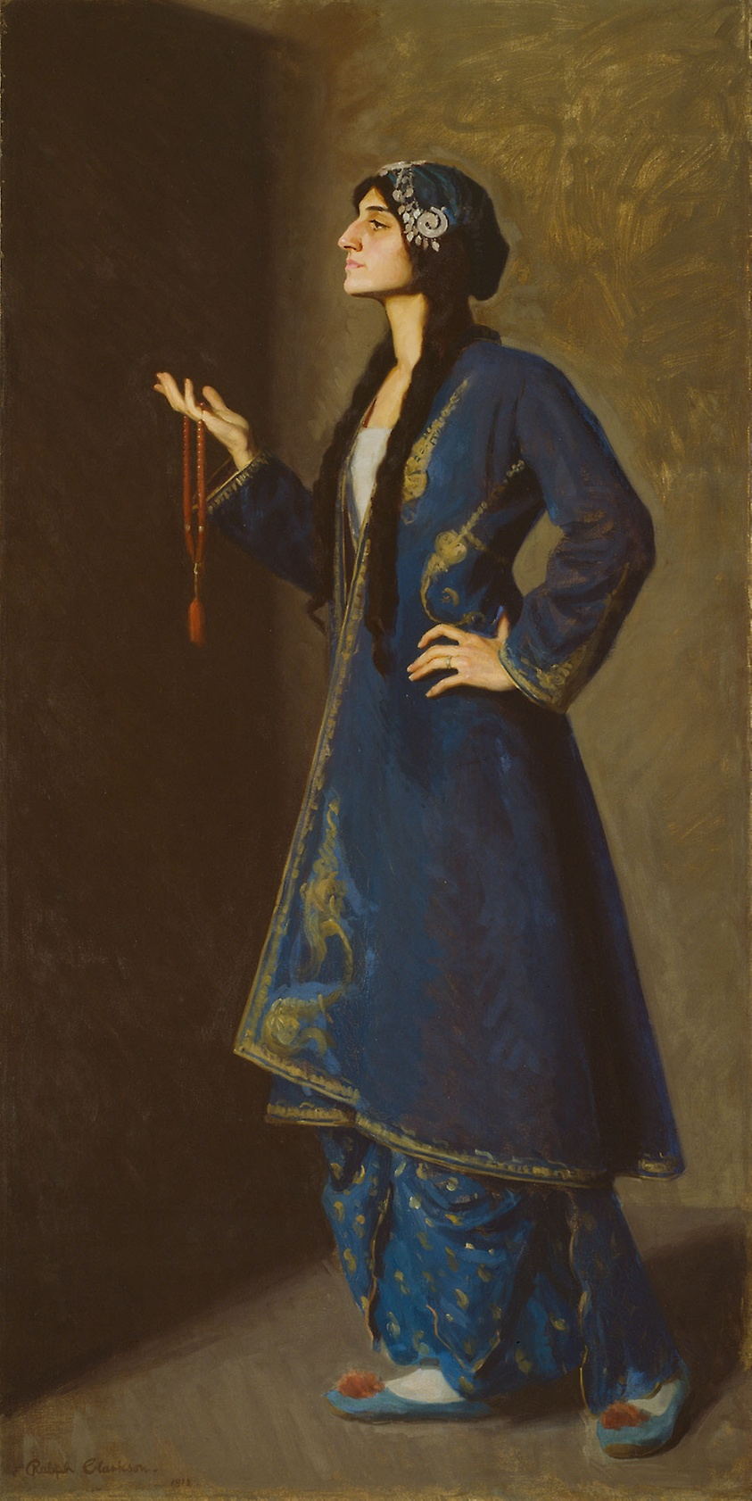 Nouvart Dzeron, a Daughter of Armenia (without frame)